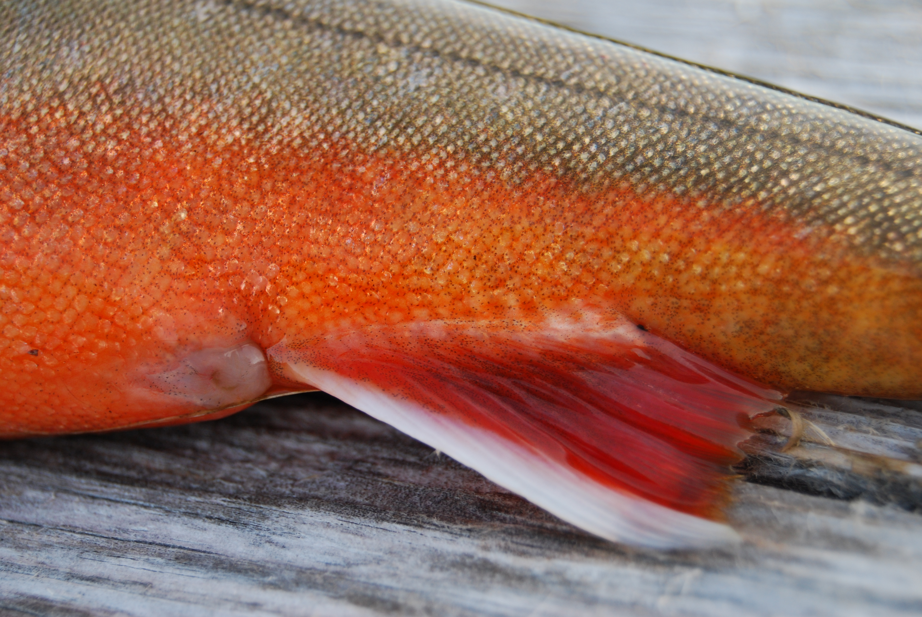 Salvelinus alpinus, Norway